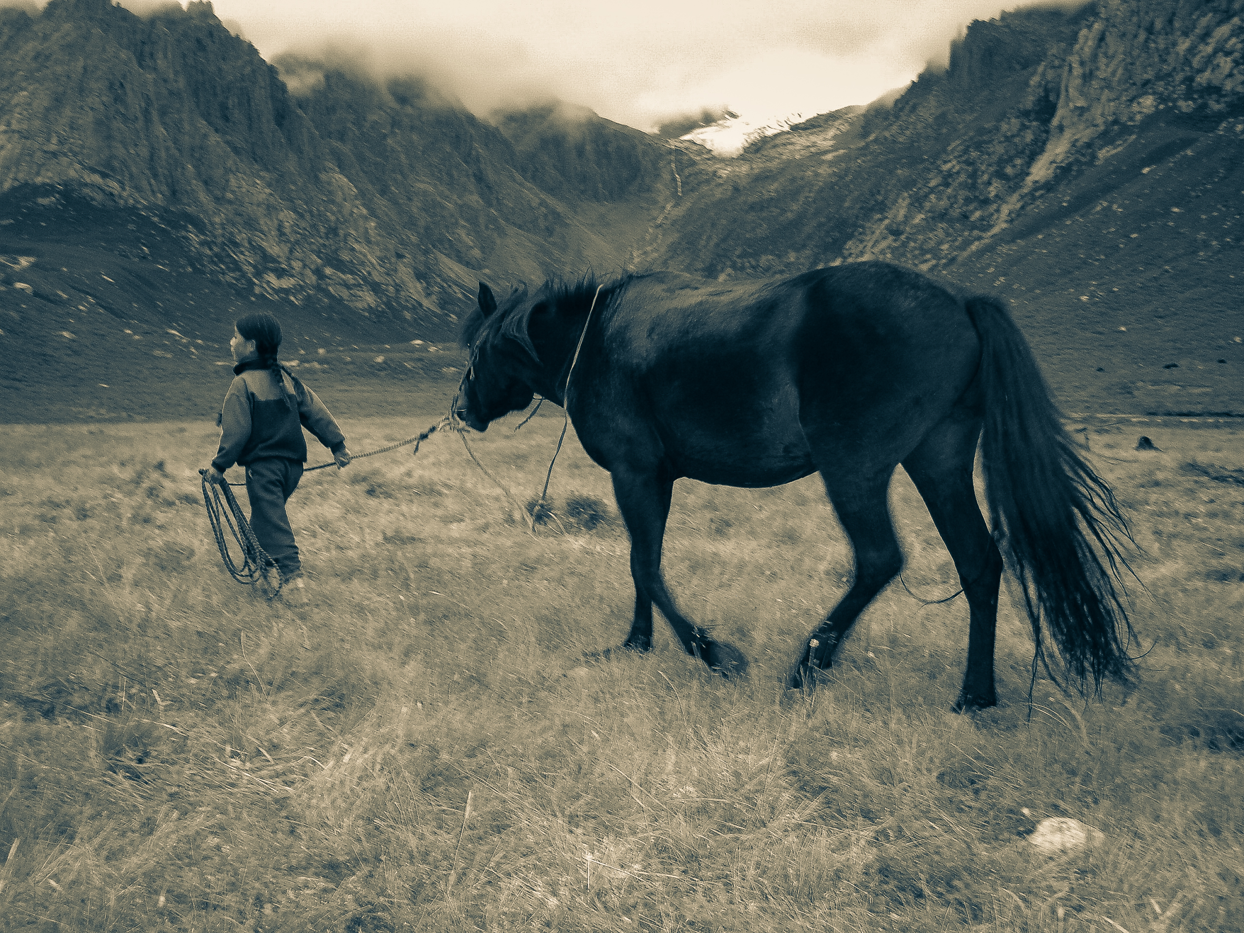 Quite astonishing how sovereign the Tibetan children handled big horses and yaks.